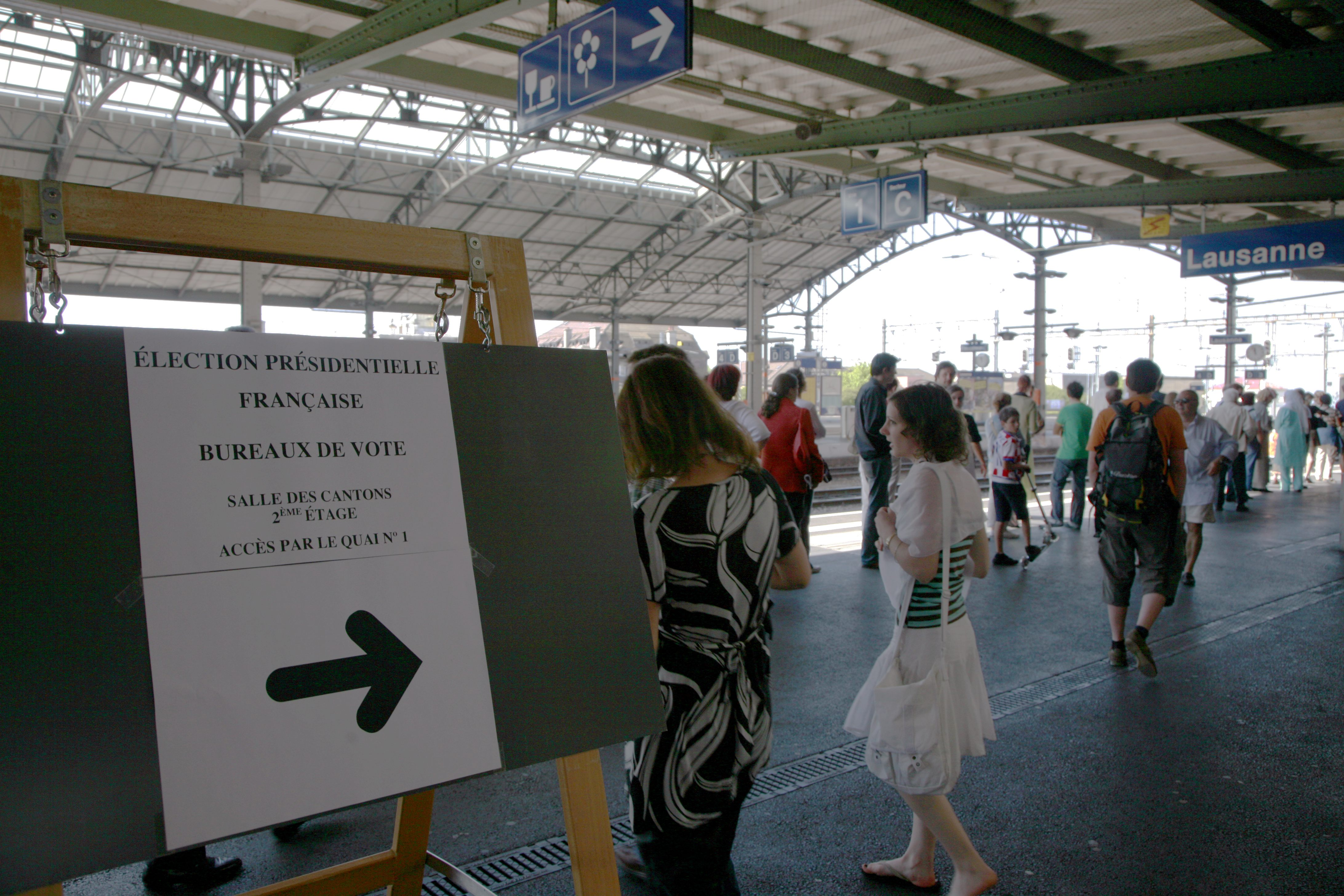 Expatriated voters queuing in Lausanne for the French presidential election of 2007